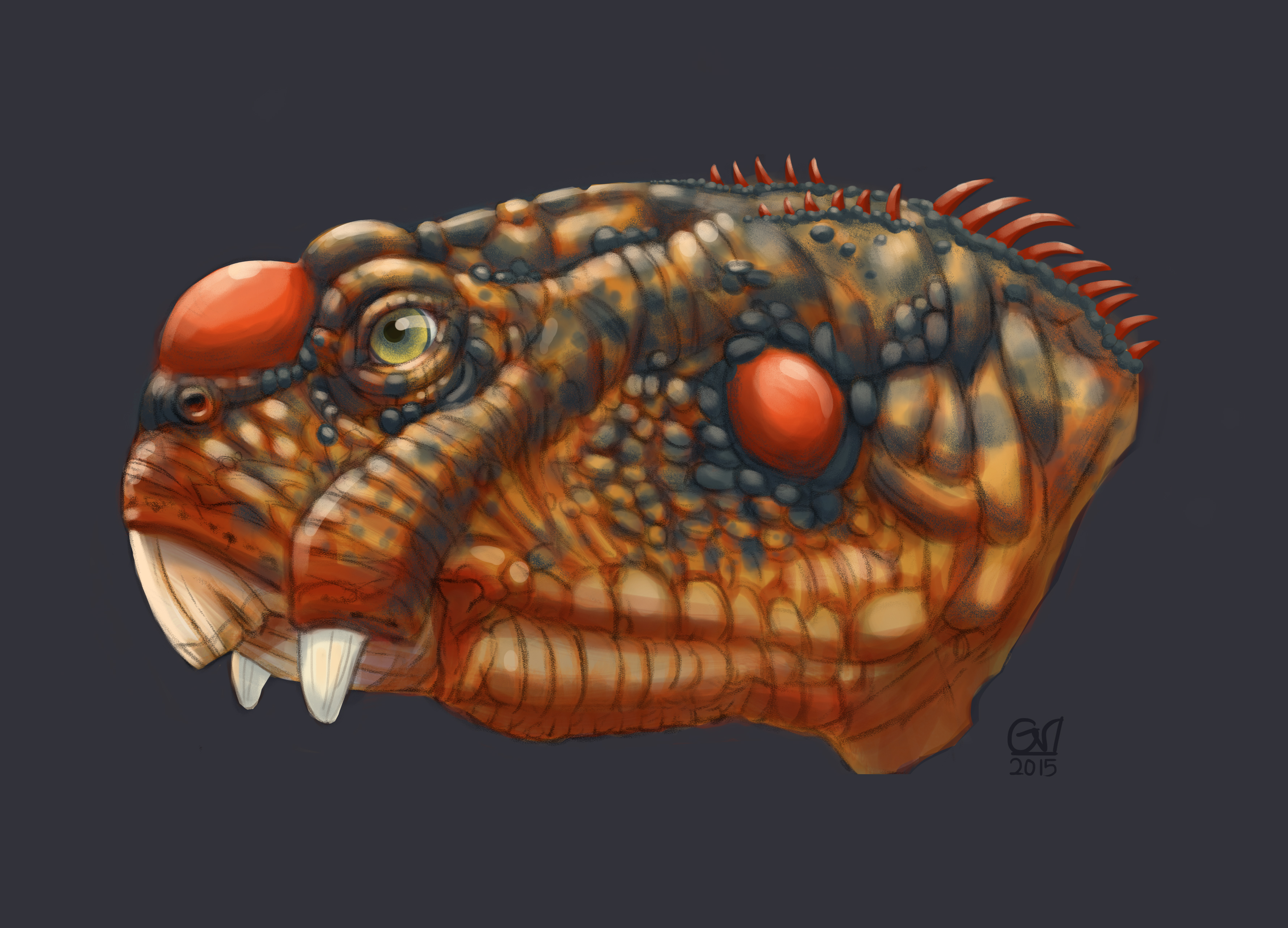 Daptocephalus leoniceps